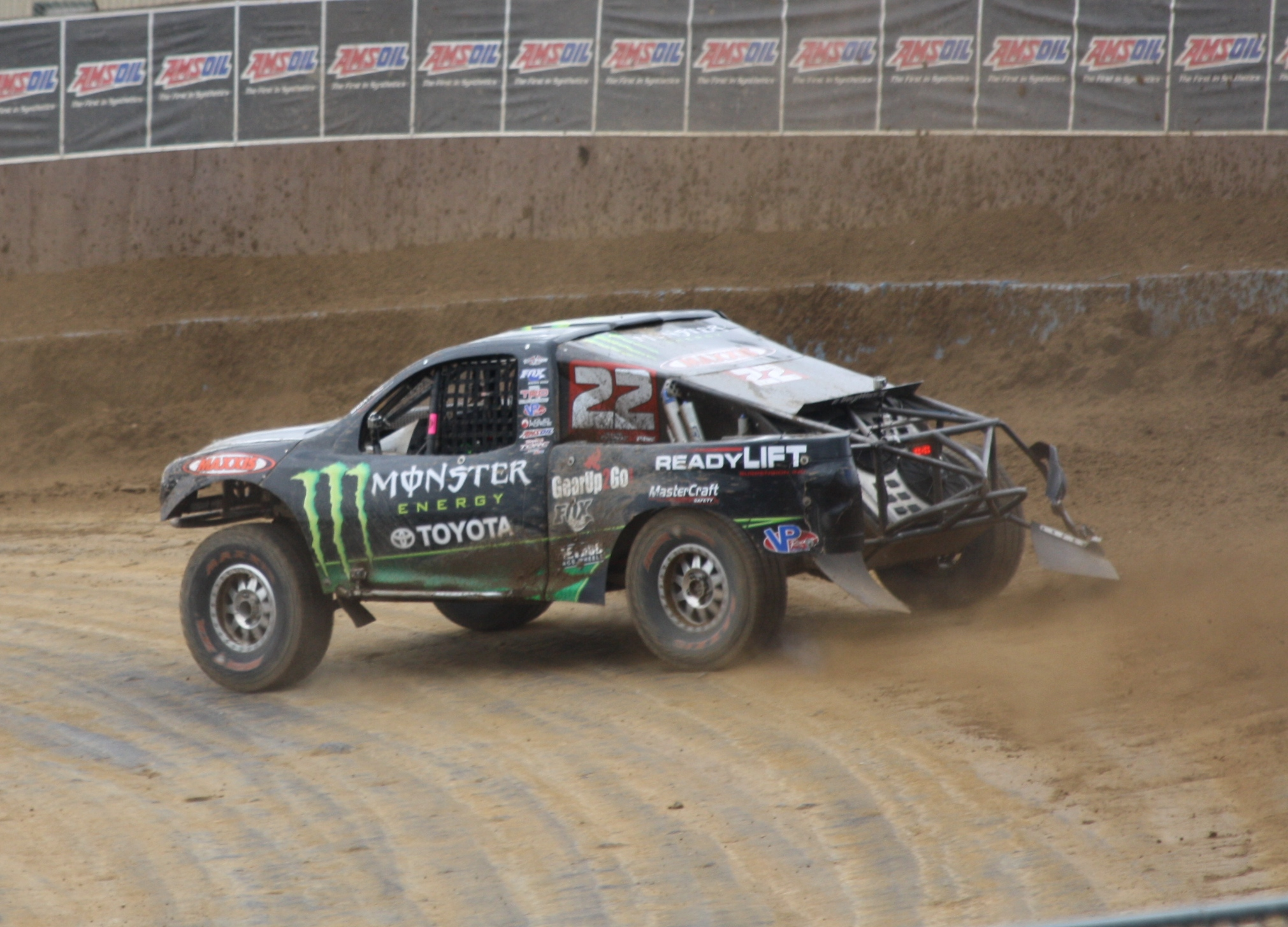 Pro 4x4 driver Johnny Greaves racing in the 2011 Pro 4 World Championship race at Crandon International Off-Road Raceway.